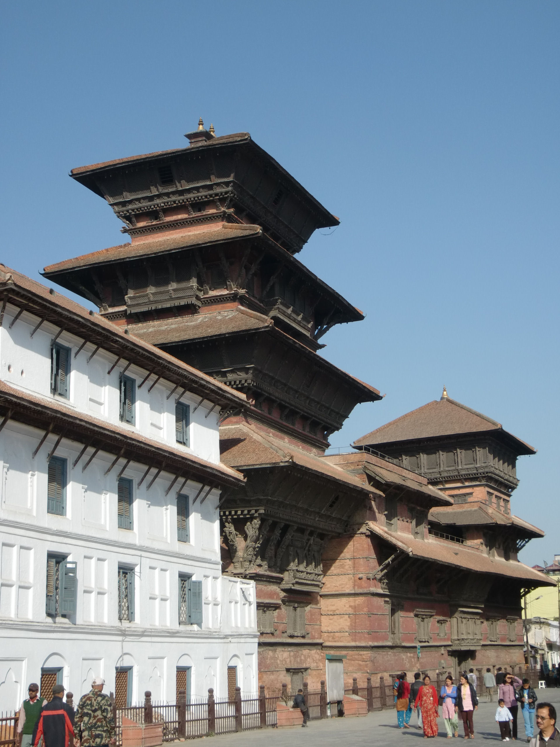 Old palace of Kathmanzu kingdum at Durbar square